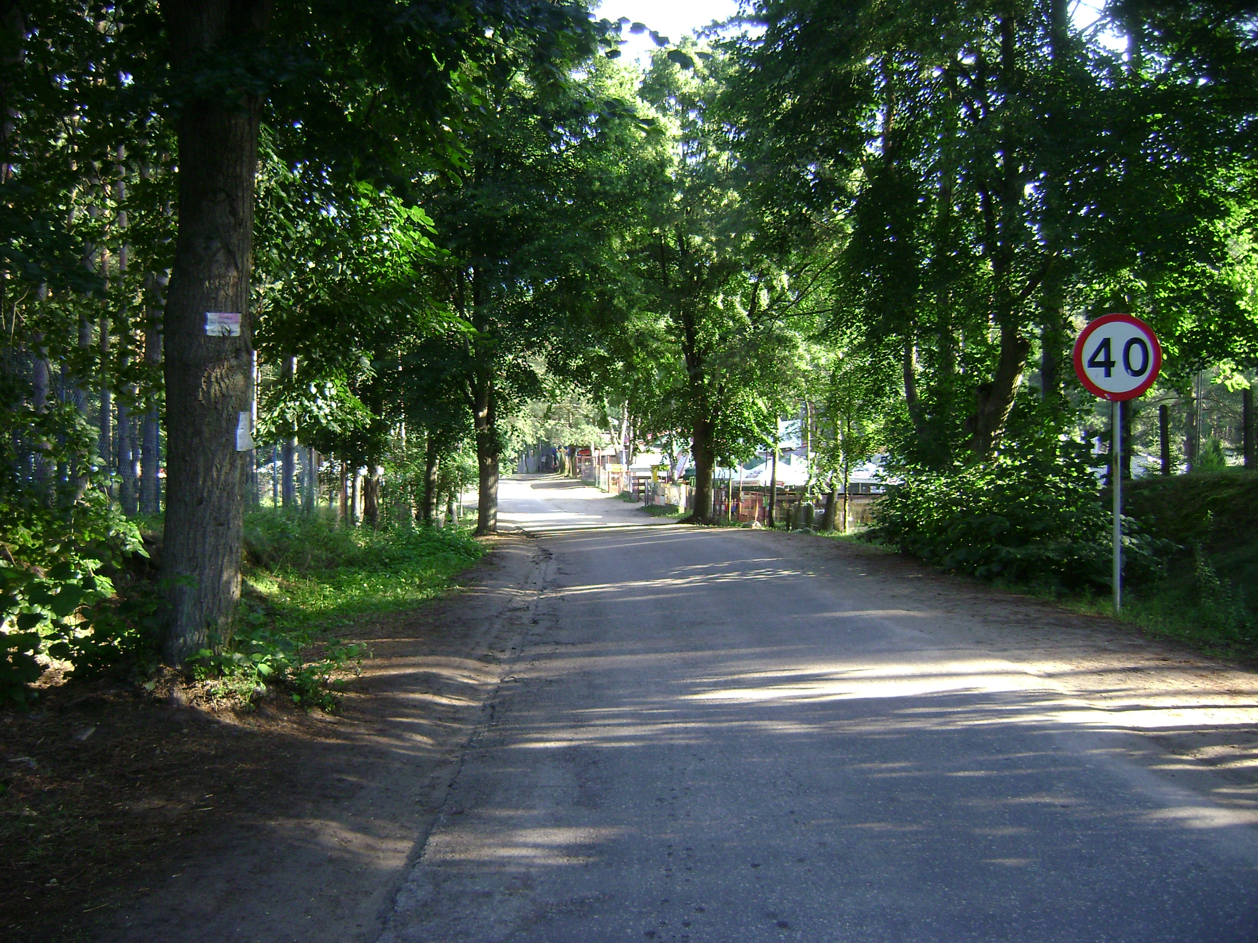 Warchały